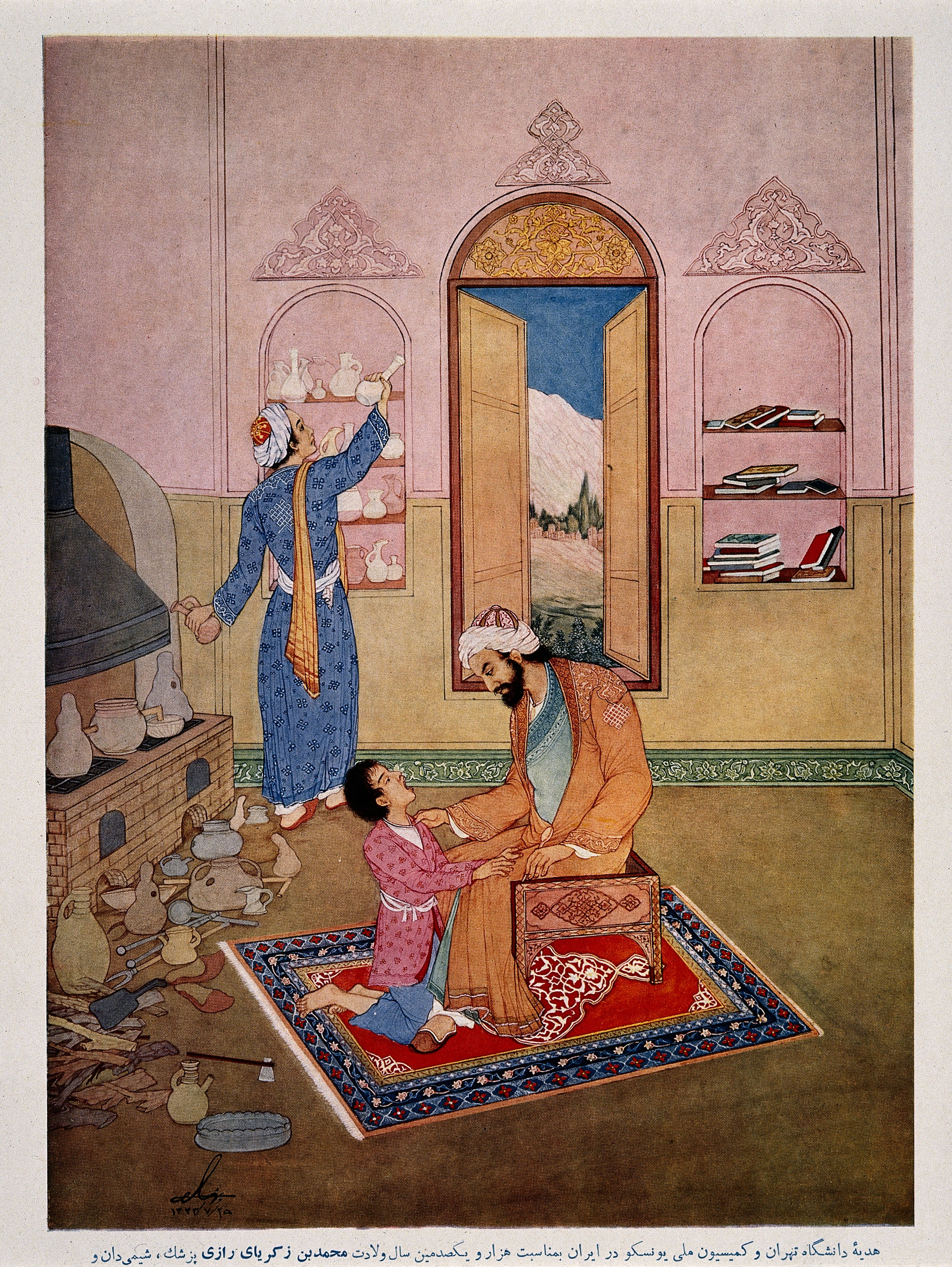 Rhazes, a physician, examines a kneeling boy who has his mouth wide open, they are in a surgery full of equipment. Colour process print after H. Behzad. Iconographic Collections Keywords: Physician; Patient; Hossein Behzad; Medical instrument; Sick; Children; Leech